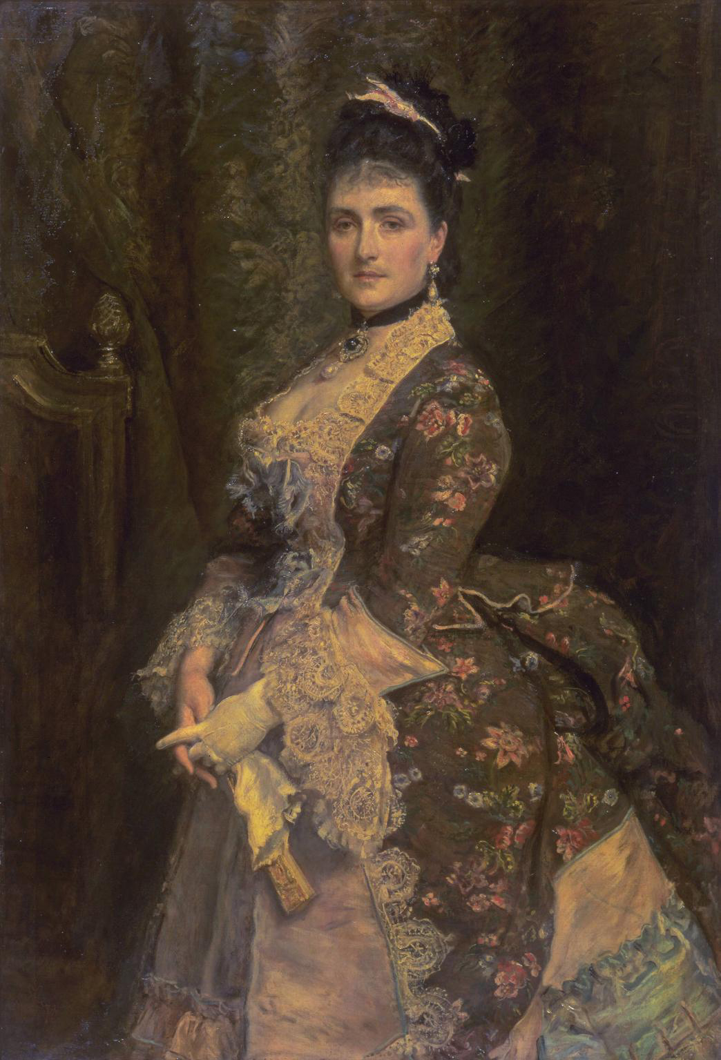 Portrait Clarissa Bischoffsheim (1837–1922), daughter of the Viennese court jeweller Joseph Biedermann and wife of the Dutch financier Henry Louis Bischoffsheim